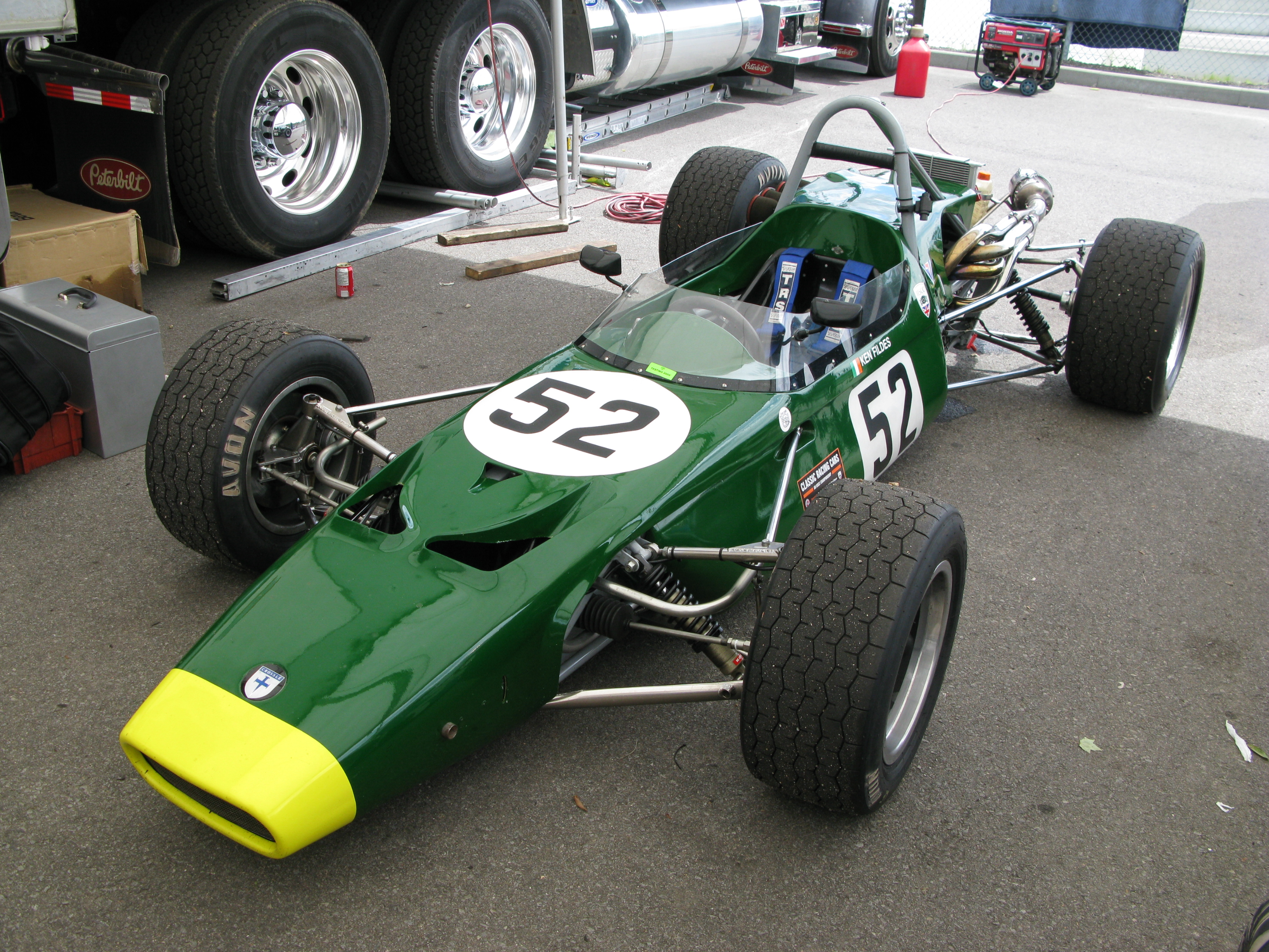 The unique Crosslé 19F Formula 2 car, from 1969, pictured during the Sommet des Légends race meeing, Circuit Mont-Tremblant, Quebec, Canada. July 2009.